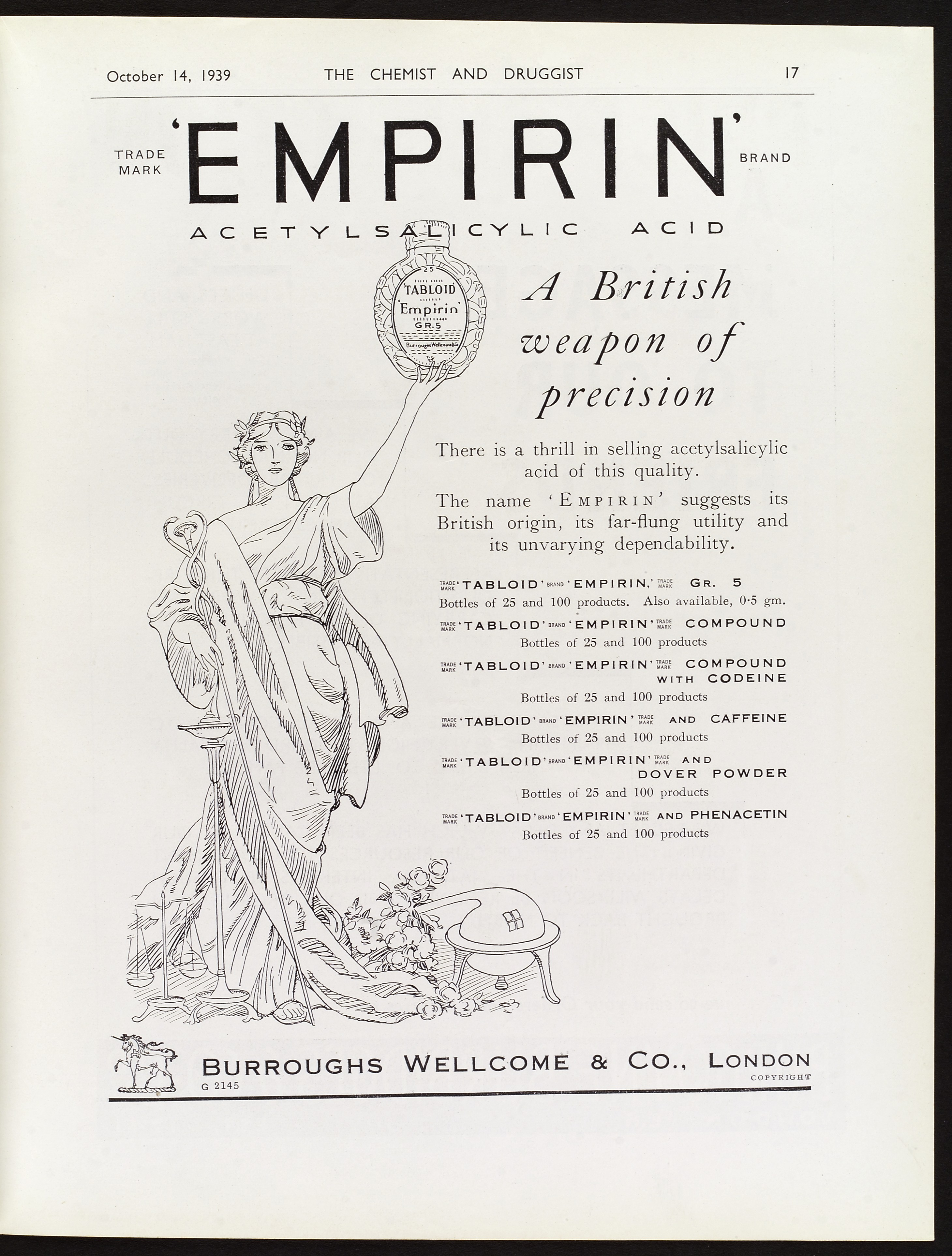 Illustrated advertisement from The Chemist and Druggist for 'Empirin' (acetylsalicylic acid), better known as 'aspirin'. Manufactured by Burroughs Wellcome, London. Hailed as 'A British weapon of precision', the advertisement appeared during the first months of World War II. General Collections Keywords: Burroughs Wellcome & Co; Medication; Drugs; Advertisements; Advertisement; Medicine; Aspirin